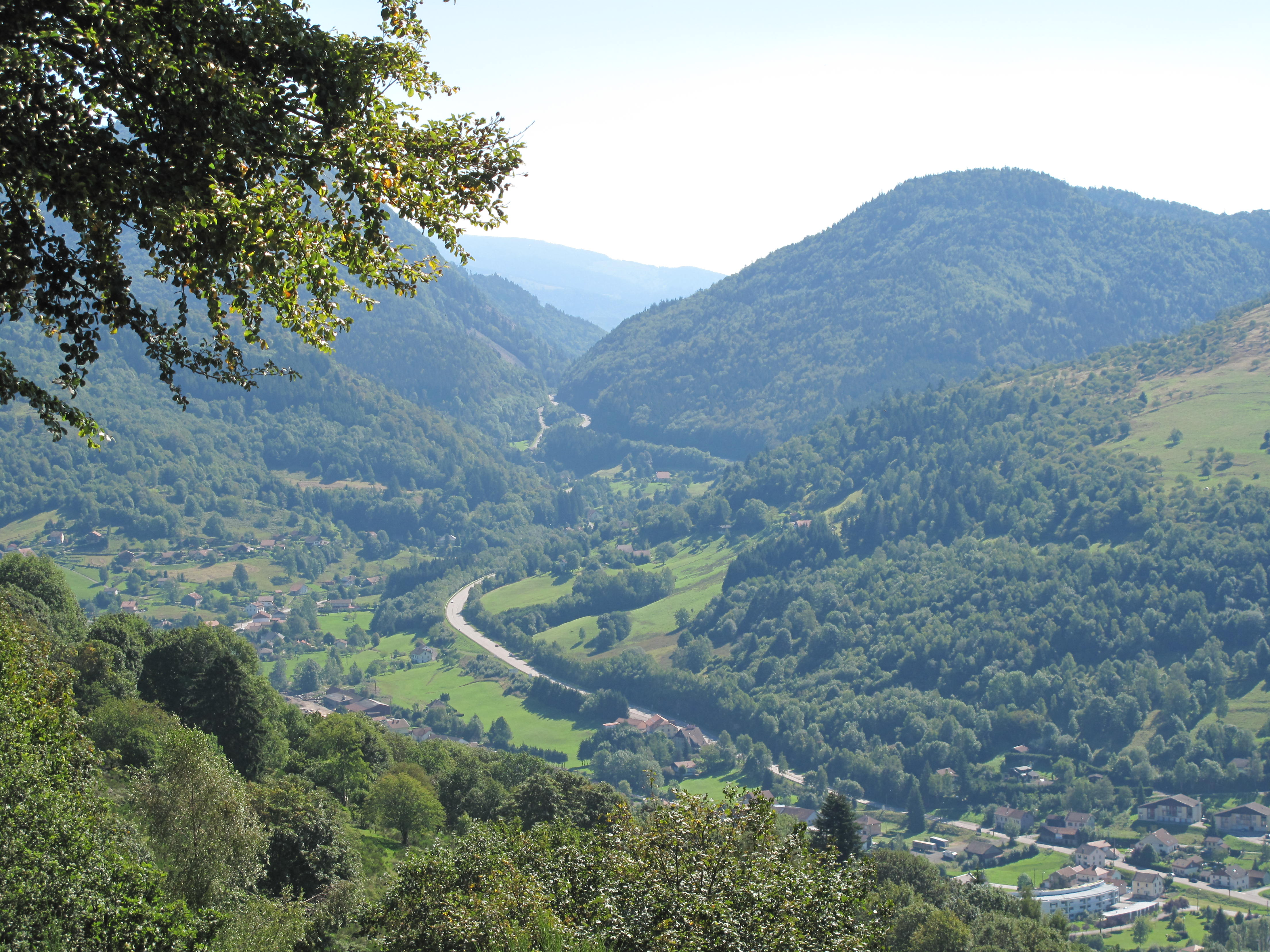 The col de Bussang seen from the heights of Bussang (Vosges, France).